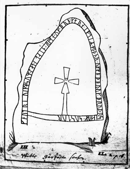 The rune stone at Jakobsberg's college - the northern stone, Järfälla, Stockholm County. Drawing of the stone made in 1682 by Johan Hadorph and Johan Leitz. Photograph from Peringskiöld's "Monumenta". Inscription: "Knut in Viksjö let erect the stone and make the bridge after his father and mother and his brothers and (his) sister."